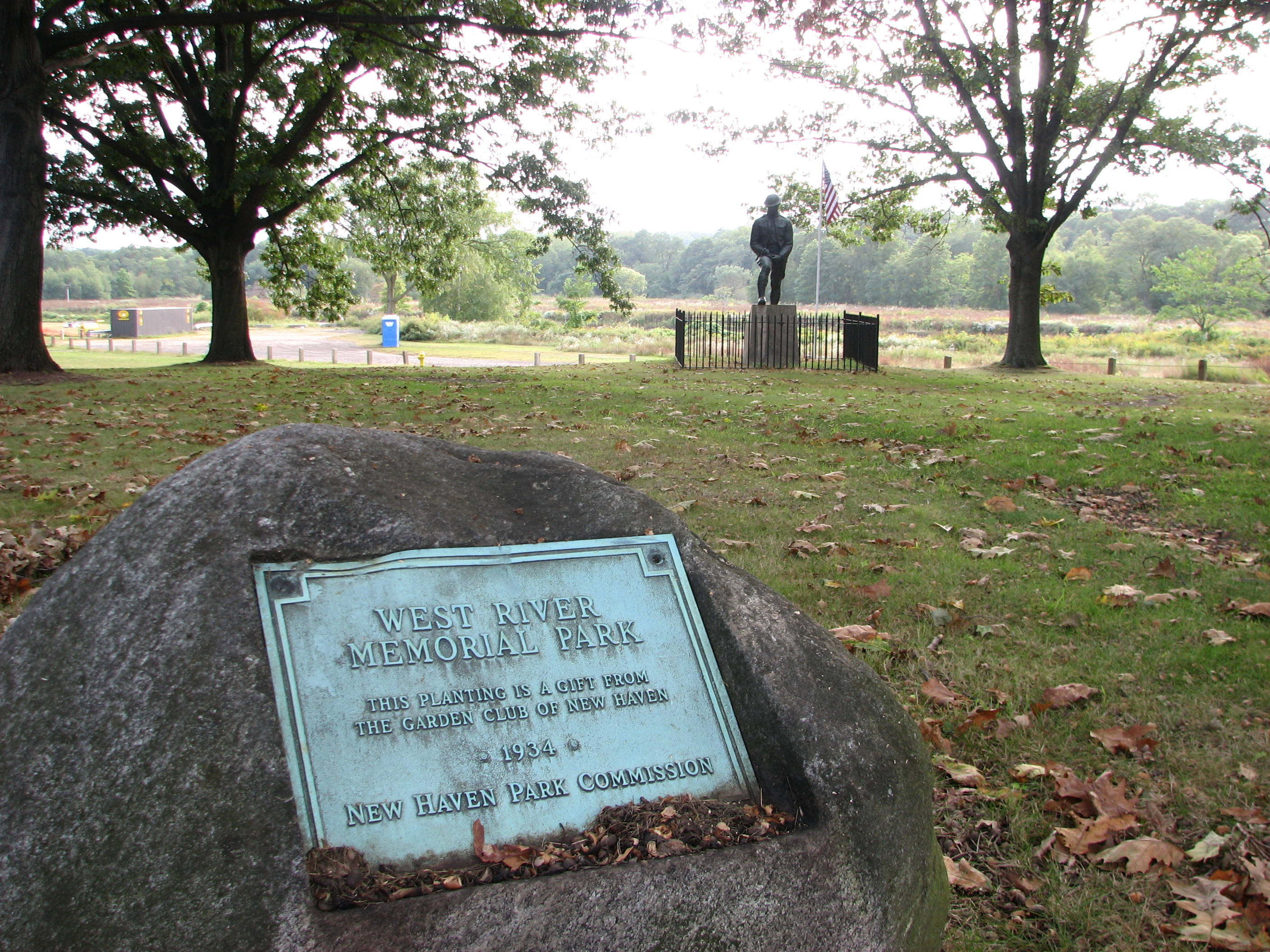 West River Memorial Park. Taken by Ulmanor with a Canon PowerShot S3 IS on October 2nd, 2007.